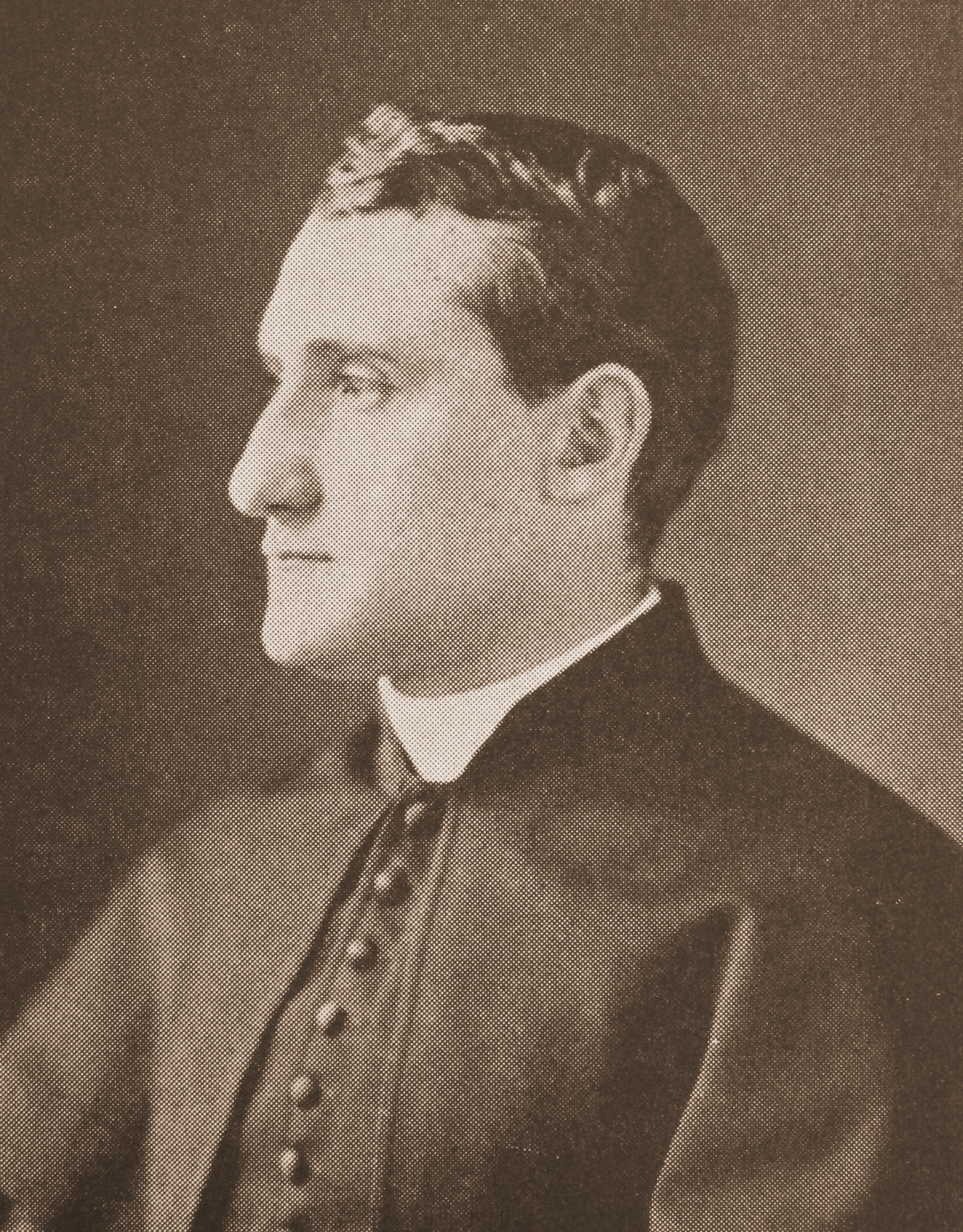 A contemporary photograph of Monsignor Louis Hostlot (1848–1884), Rector of the North American College in Rome from 1878 until his death in 1884. Scanned from a history book of the College published in 1956.